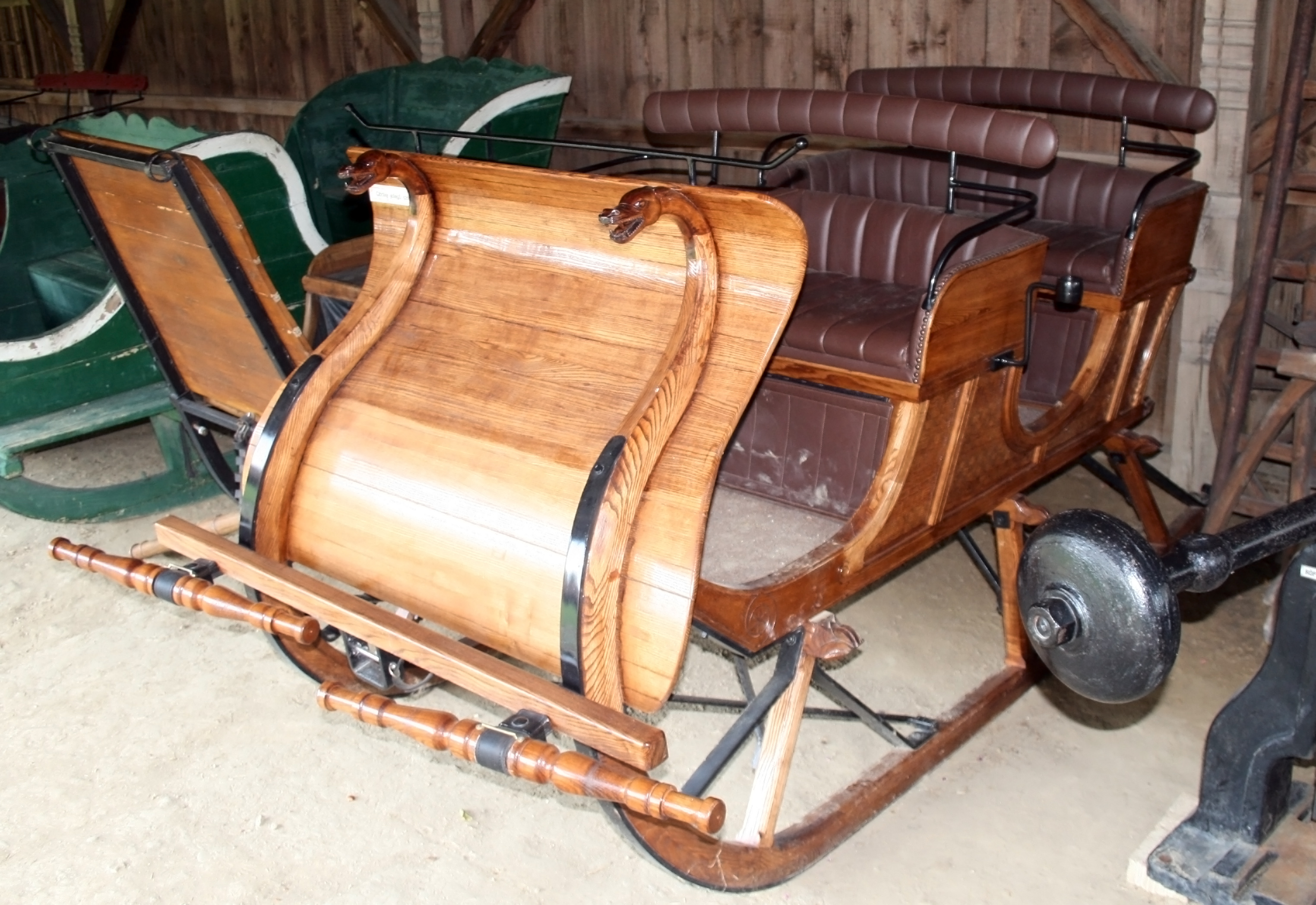 Traditional Hungarian horse-drawn sledge